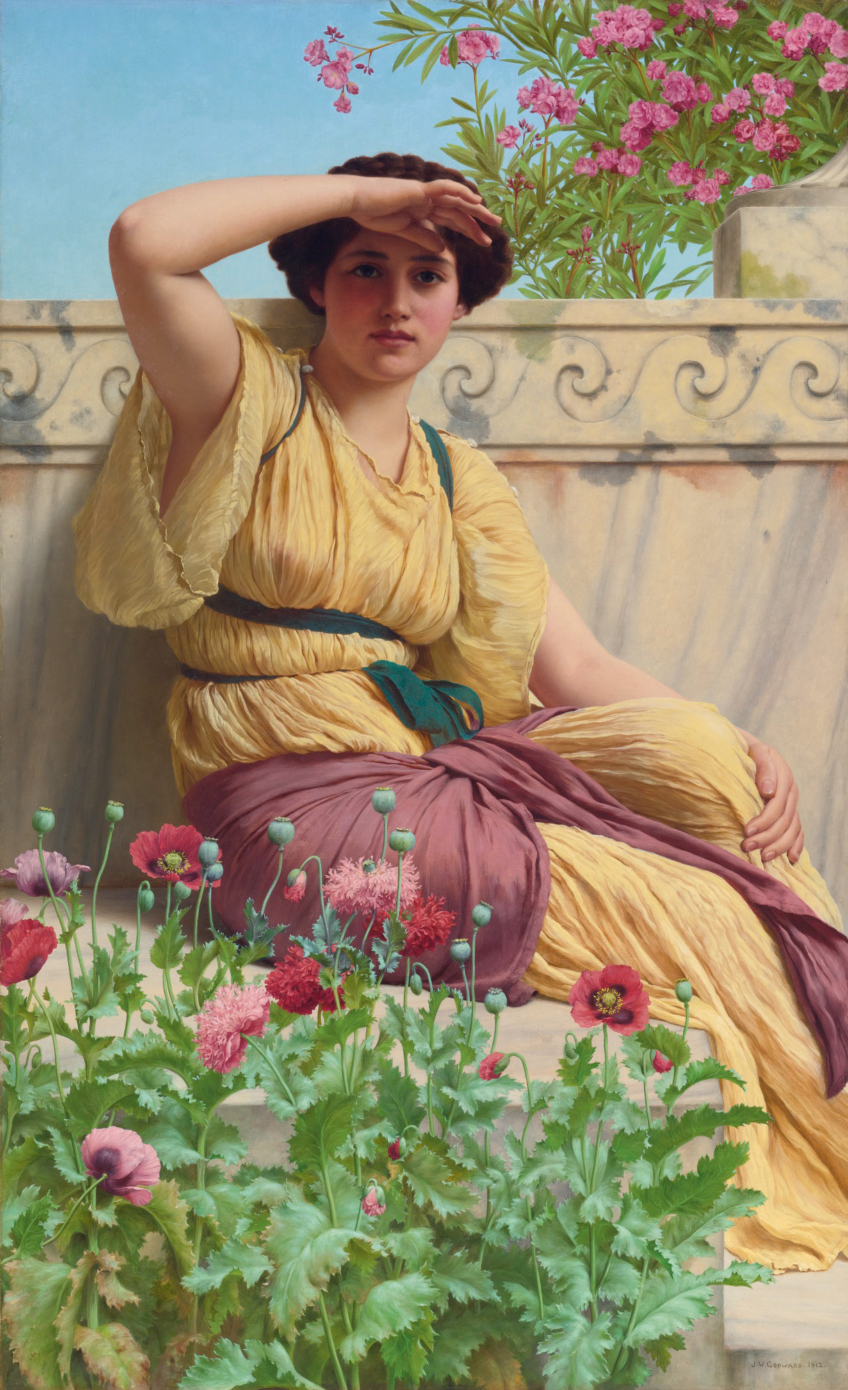 A tryst oil on canvas 127 x 78.7 cm signed b.r.: J. W. GODWARD. 1912